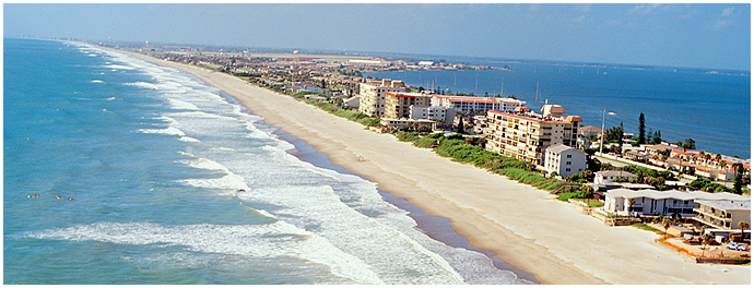 Indian Harbor Beach Skyline